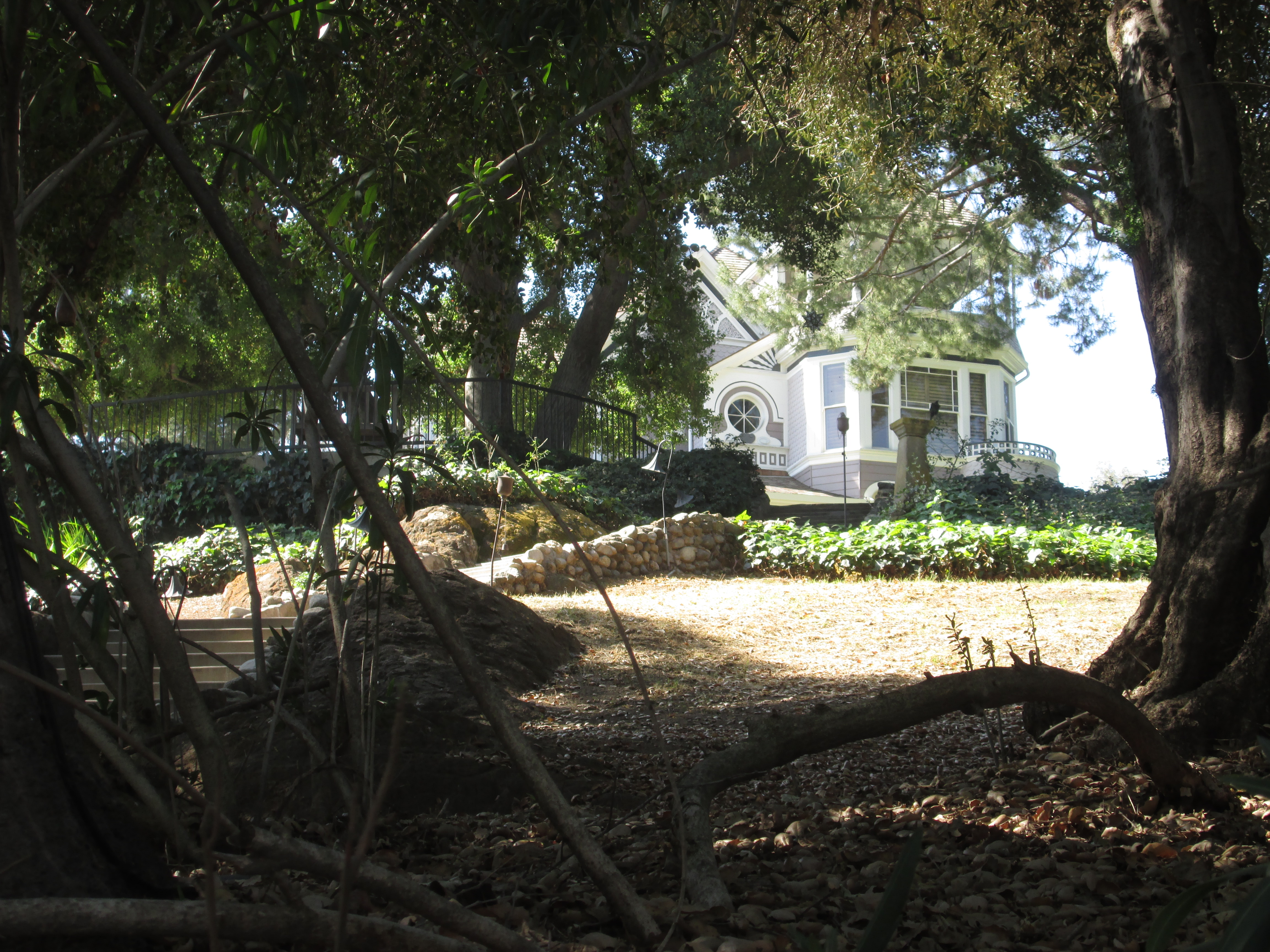 Wynyate